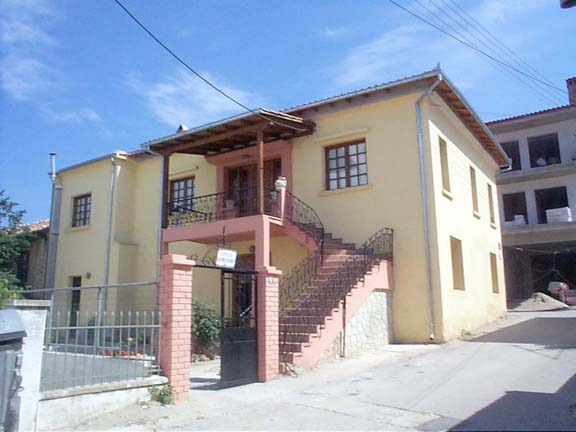 Outside View, image from the Folklore Museum, Poliyiros, Central Macedonia, Greece